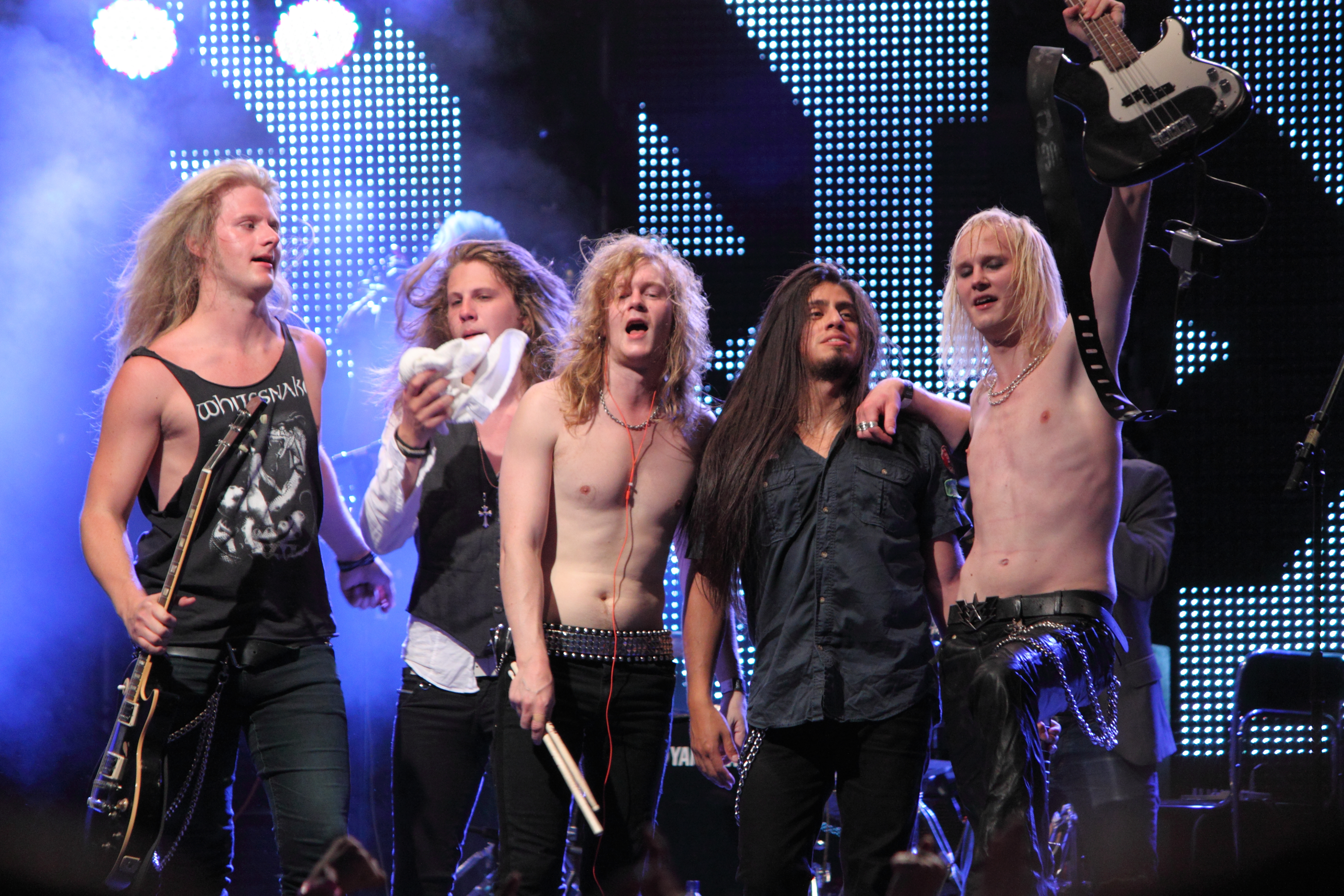 Dynazty